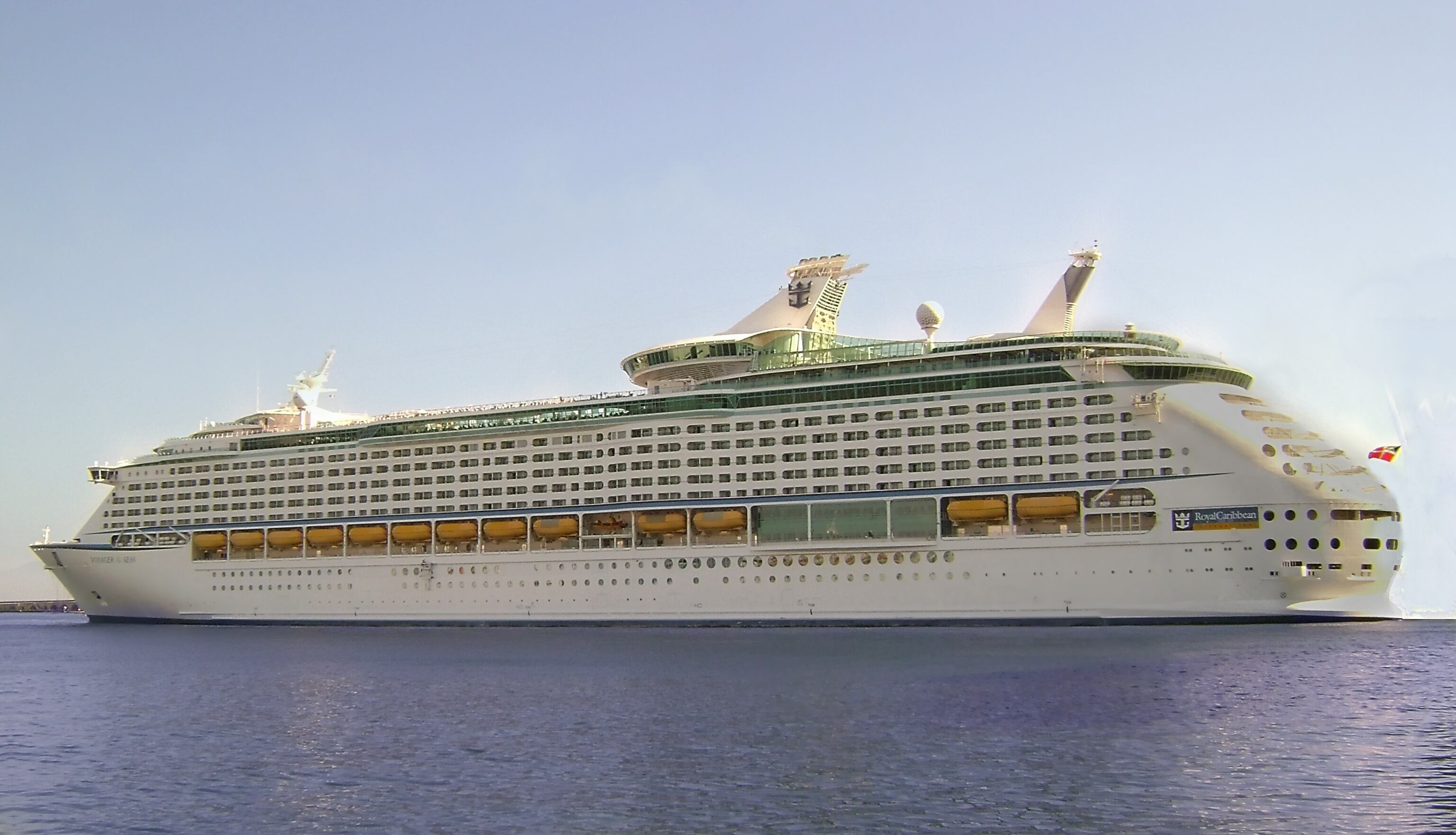 The cruiser Voyager of the Seas at the harbour of Naples in August 2007.